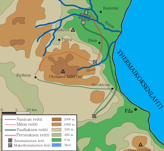 Army movements before the Battle of Pydna 168 BC